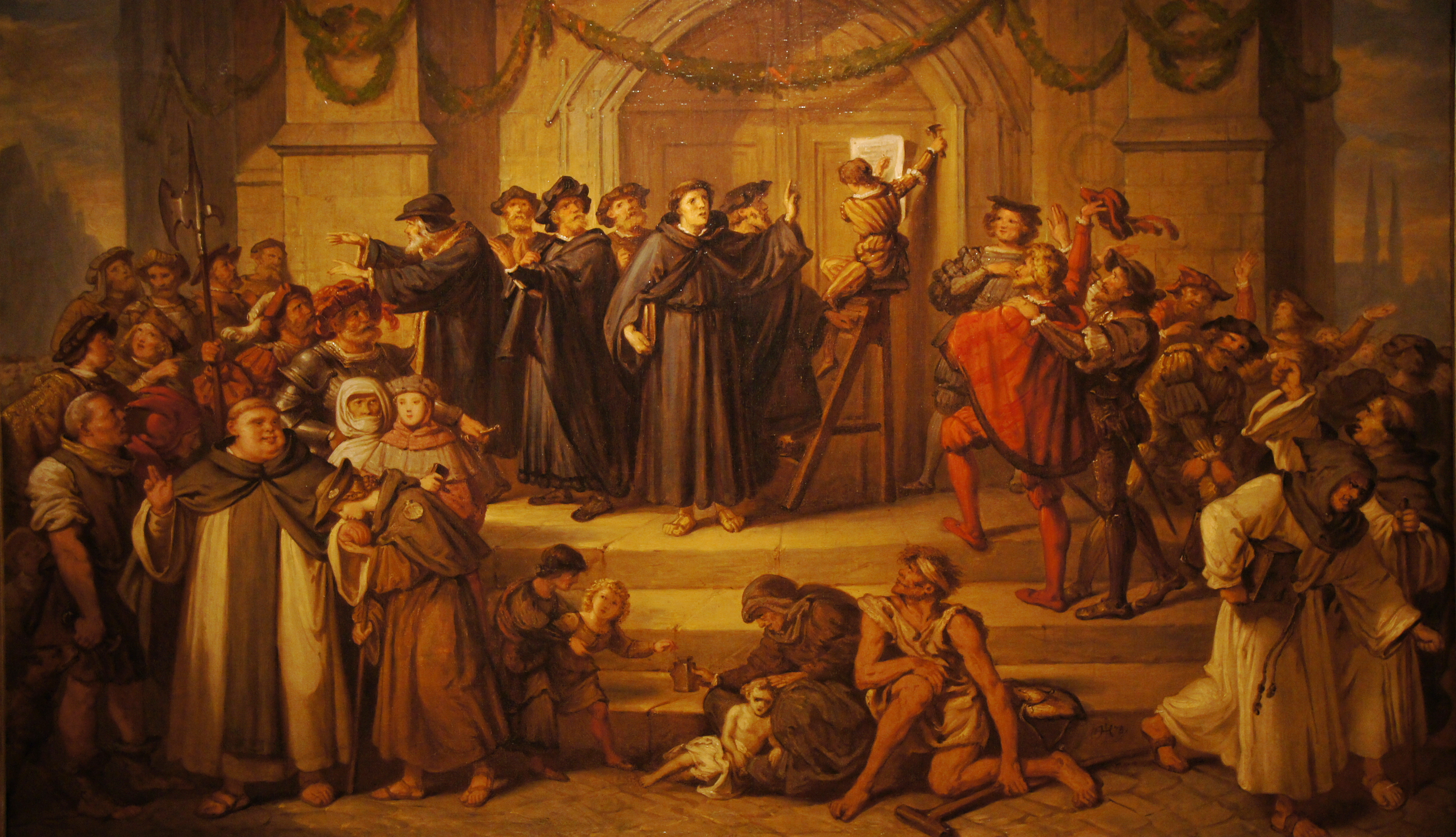 Painting of Luther nailing 95 theses